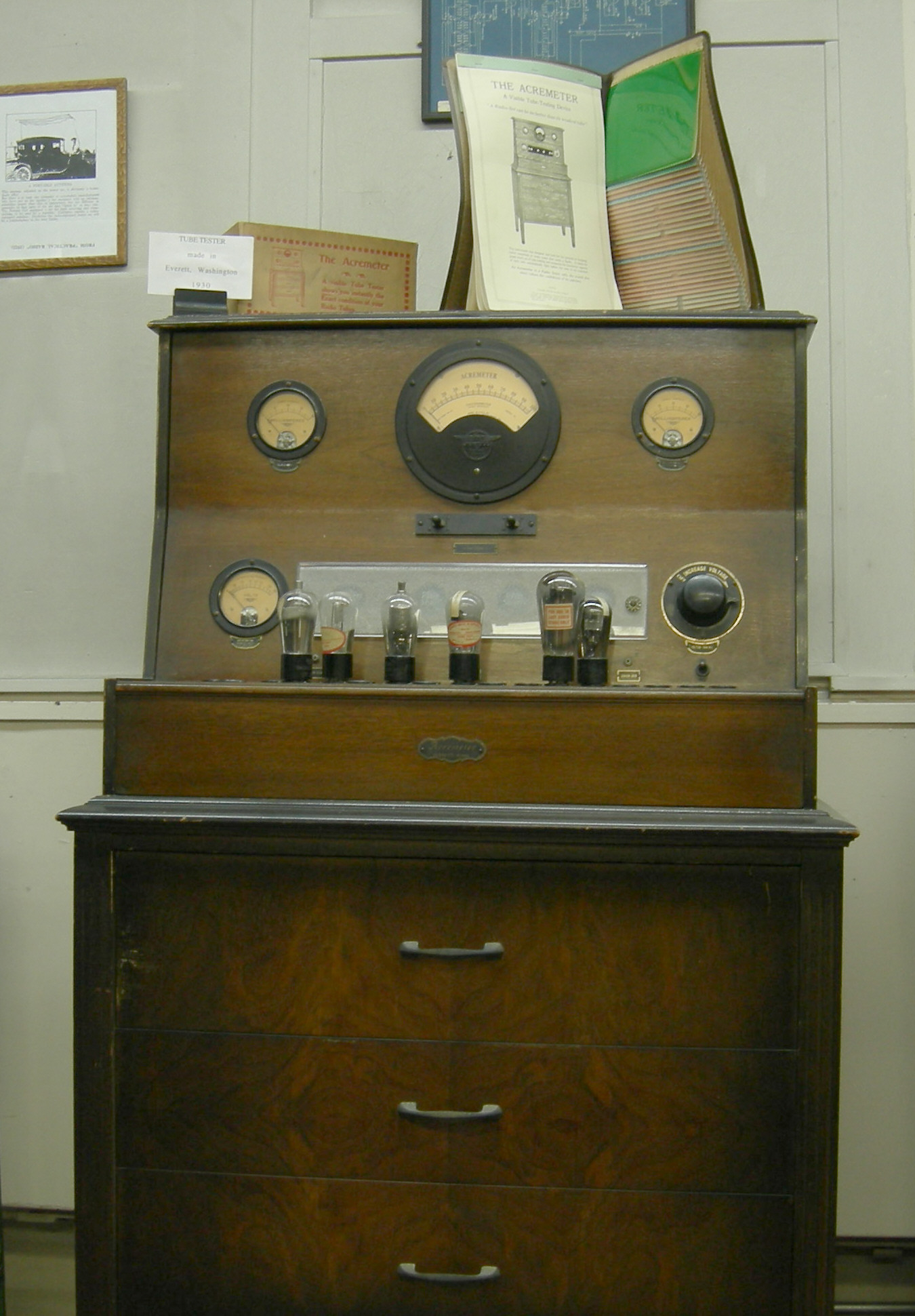 "Acremeter" tube tester, manufactured 1930 in Everett, Washington, USA. Photographed at Shoreline Historical Museum, Shoreline, Washington.